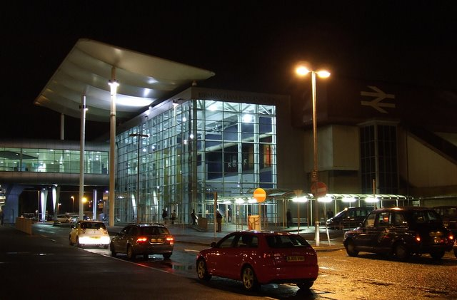 Birmingham International railway station. The taxi rank and pickup point at the station which is also served by a cable-drawn rail link with the nearby airport 1524802 which can be seen to the left.